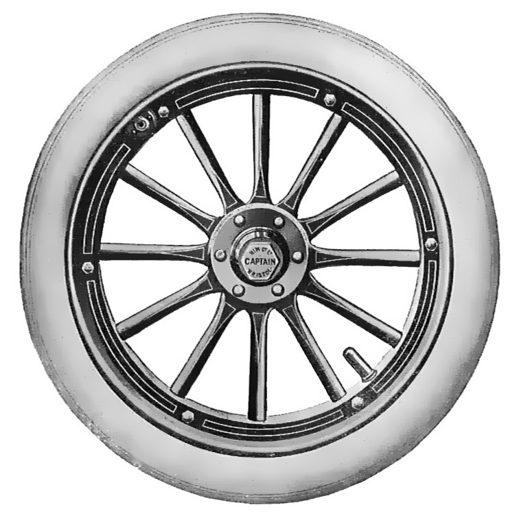 Fig. 39 Artillery-spoked wheel This is a style of wheel with rigid wooden spokes, used on very early motor cars. The original caption refers to it by brand as a "Captain" wheel. Scans from 'The Book of the Motor Car', Rankin Kennedy C.E., 1912 See other images from this source in Scans from 'The Book of the Motor Car'